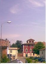 Villa Carbone Valerio con torretta. A destra: si scorge Villa Gritta Valerio, verso la Chiesa. A sinistra: in primo piano Villa Valerio.